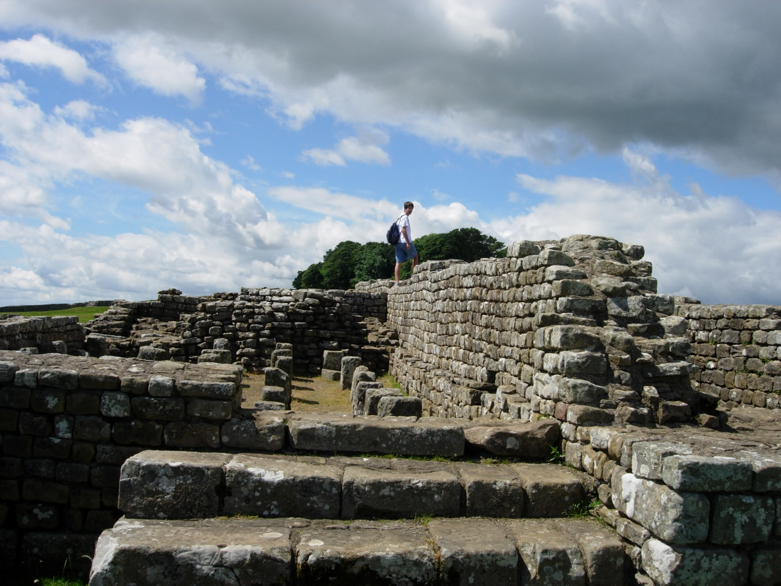 Granary at Housesteads Roman Fort on Hadrian's Wall, England.